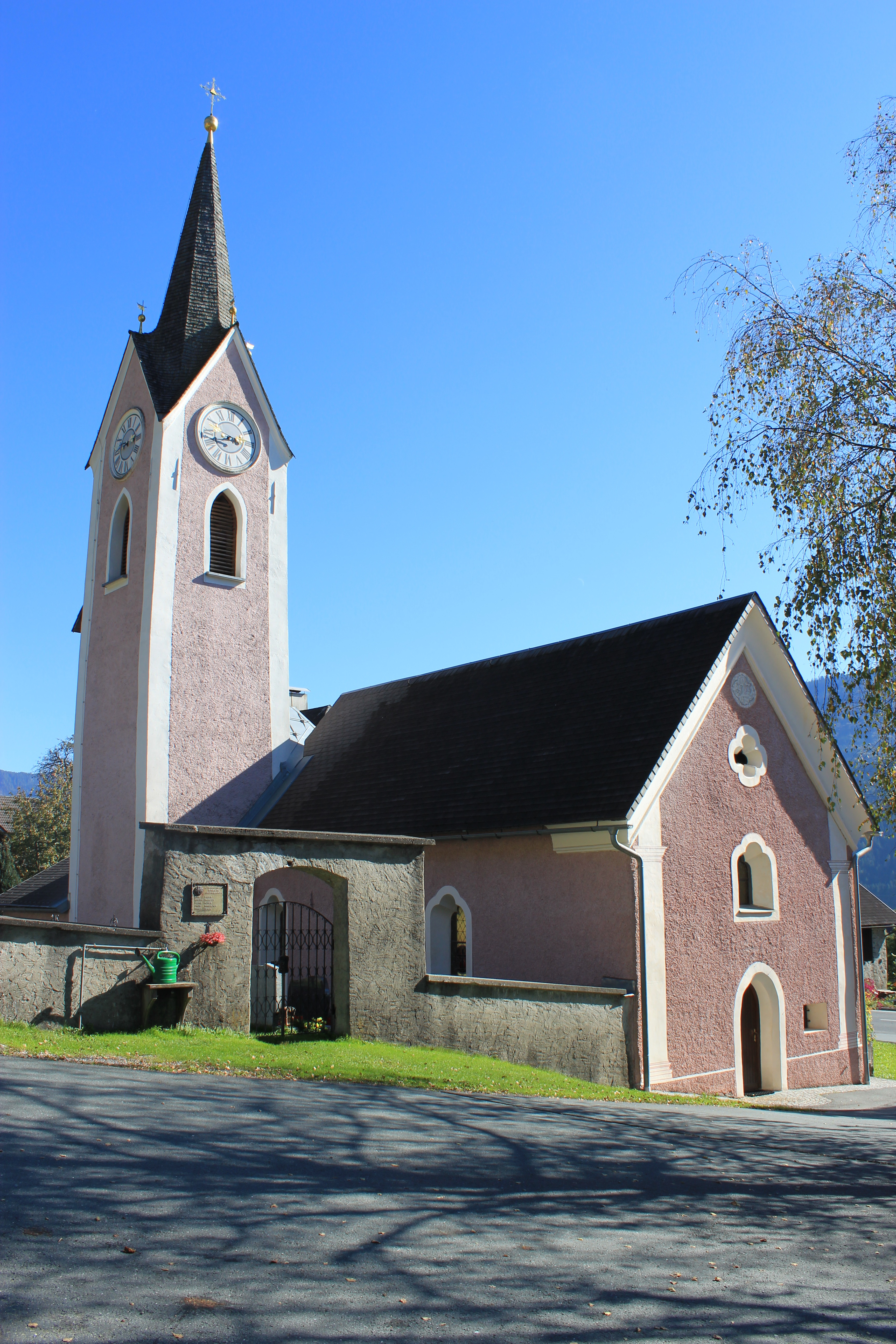 Church of Waidegg in the community of Kirchbach